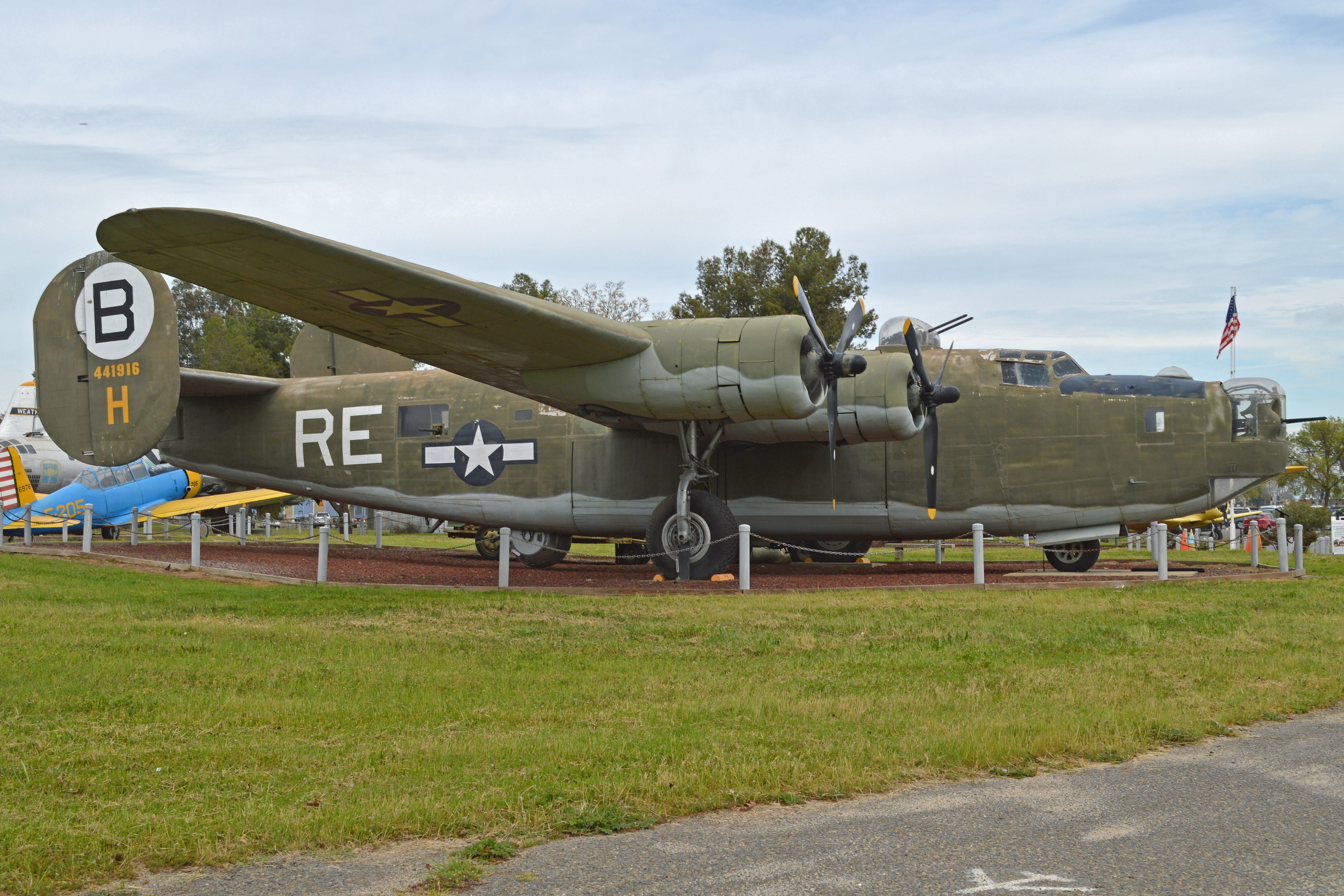 c/n 5852. Full US military serial 44-41916. Later transferred to the US Navy as a PB4Y-1 and given the Bureau No 90165. In 1951 she was sold off and became ‘CP-576’ with Bolivian Overseas Airways, however by 1973 she had been stripped for spares and was ‘out to grass’. Recovered in 1982, she was fully restored and since 1989 she has been on display at the Castle Air Museum, Atwater, CA. 4th March 2016